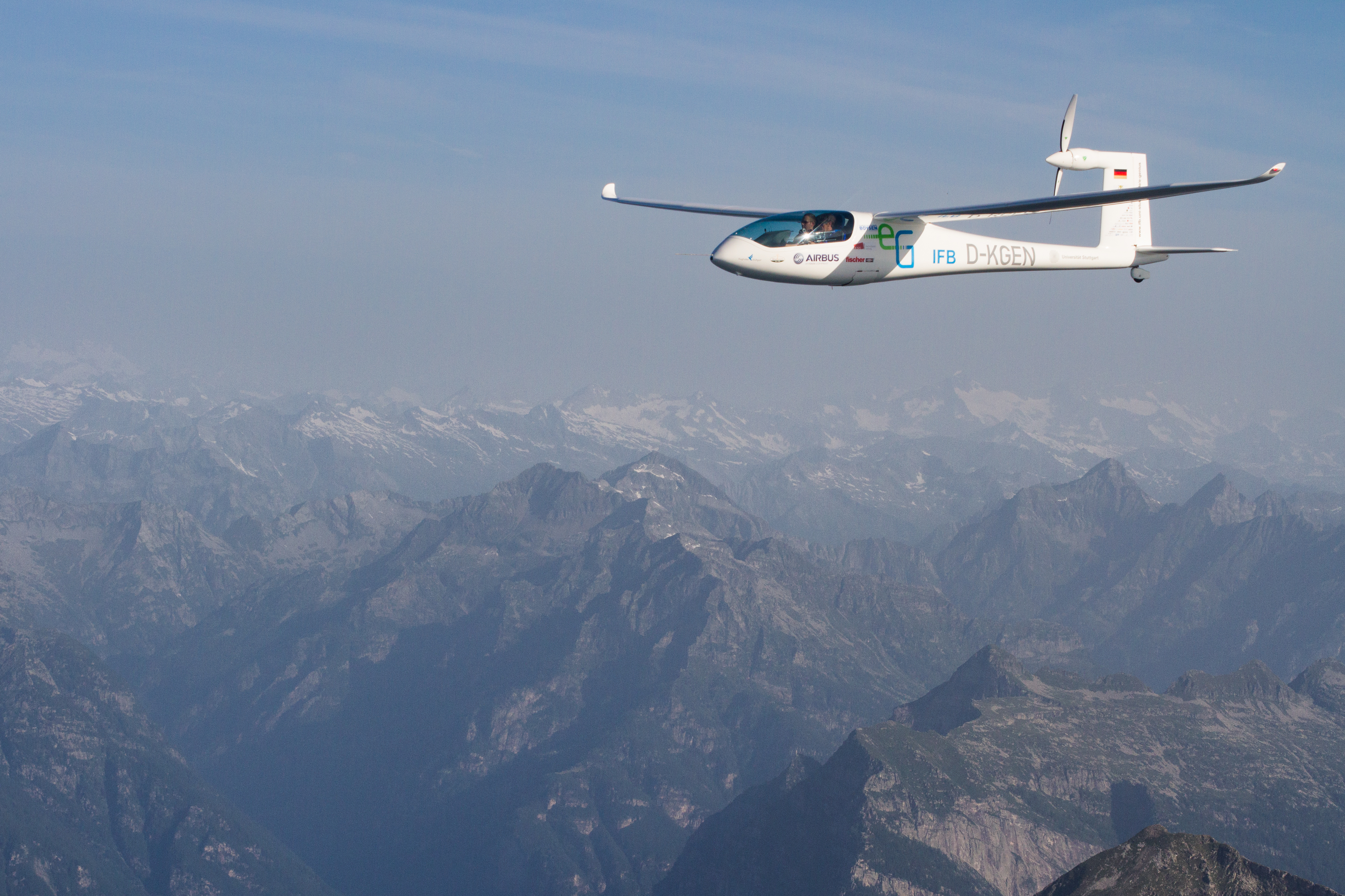 e-Genius over the Alps